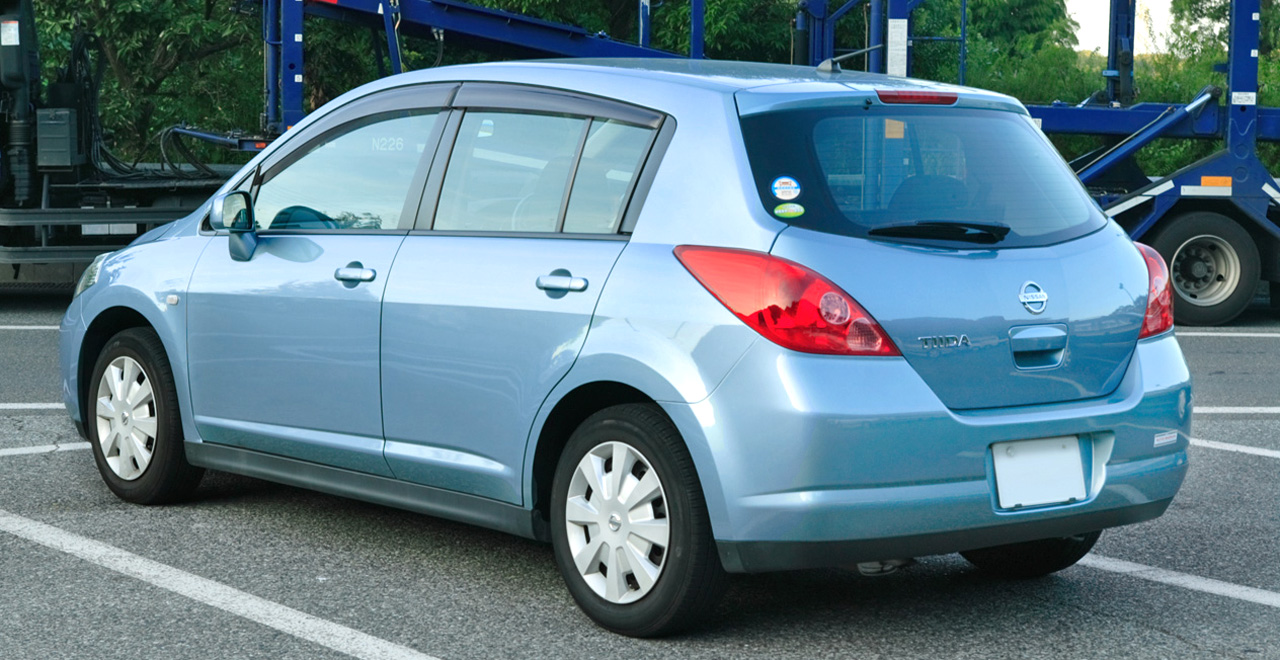 Nissan Tiida 15M ( C11 )